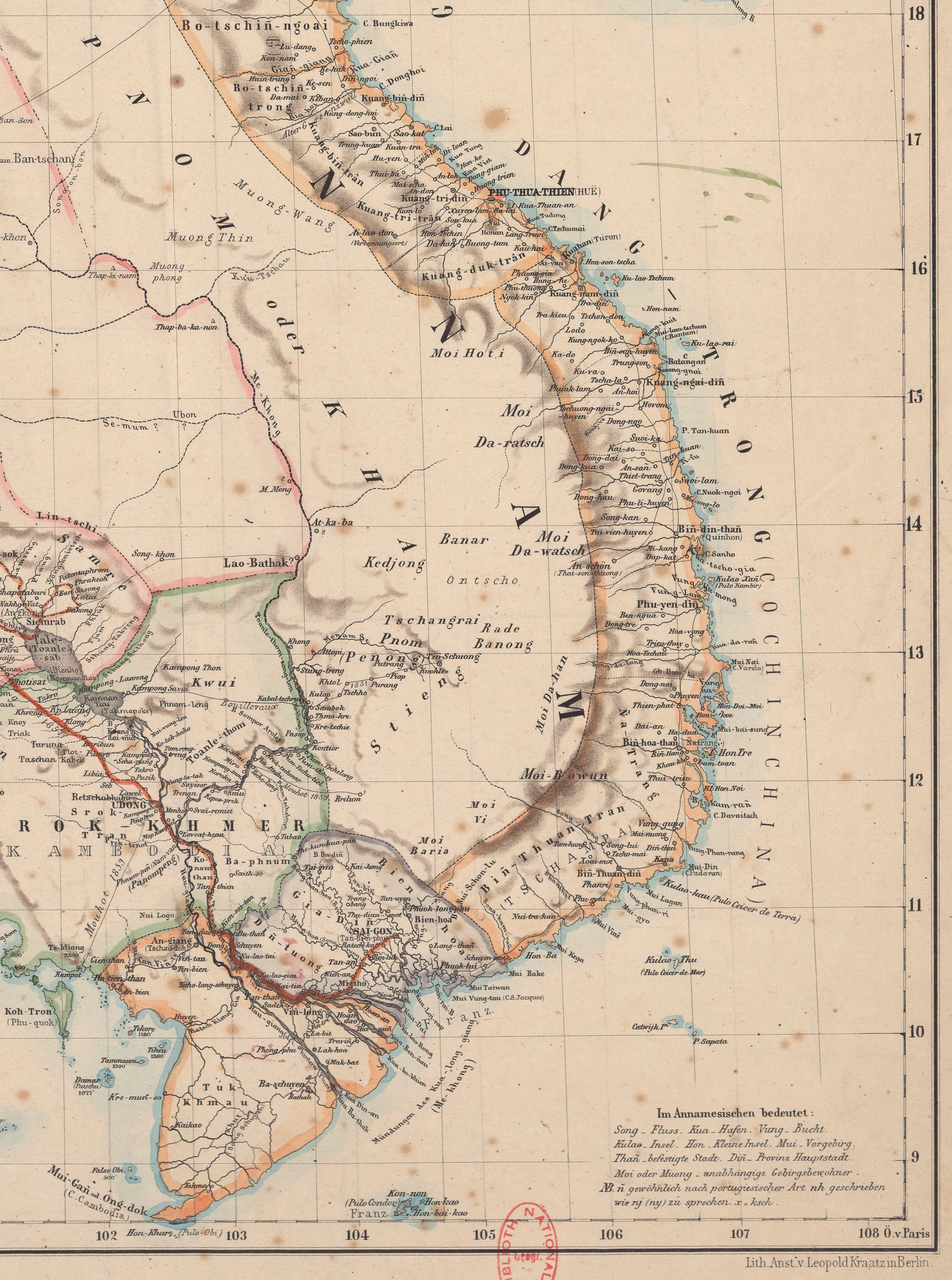 Cochinchina sensu lato, or Đàng Trong in Vietnamese. Part of a larger map.